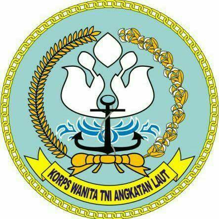 Indonesian Navy